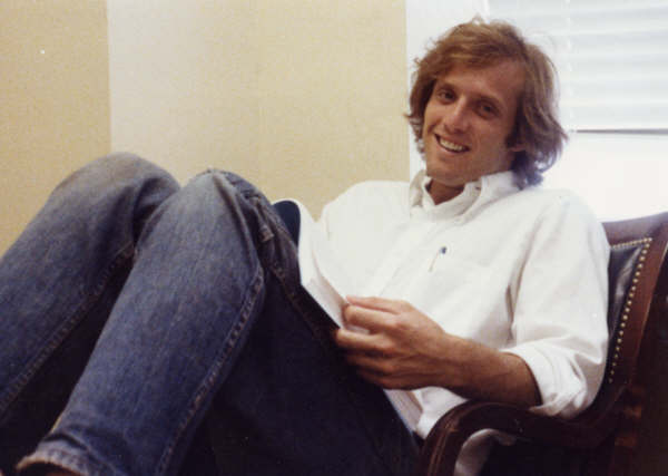 Photo of Michael Goldsmith, JD circa 1978.